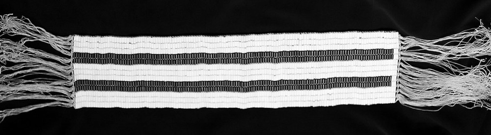 The First Law of Land belongs to the " DAUGHTERS OF THE GREAT SPIRIT " on Turtle Island. When the Two Row Wumpum Treaty was made it was made with (54) Clanmothers (9) from each of the (6) Iroquois confedracy tribes, this is how the iroquois let the new comers (Europeans, Dutch) onto turtle island, and now they are all citizens